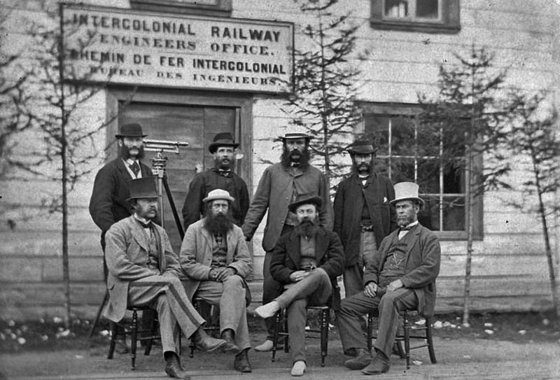 For 7 years, SandFord Fleming, with a team of engineers and surveyors, supervise the construction of the Intercolonial Raiway from Rivière-du-Loup to Halifax over 900 km.